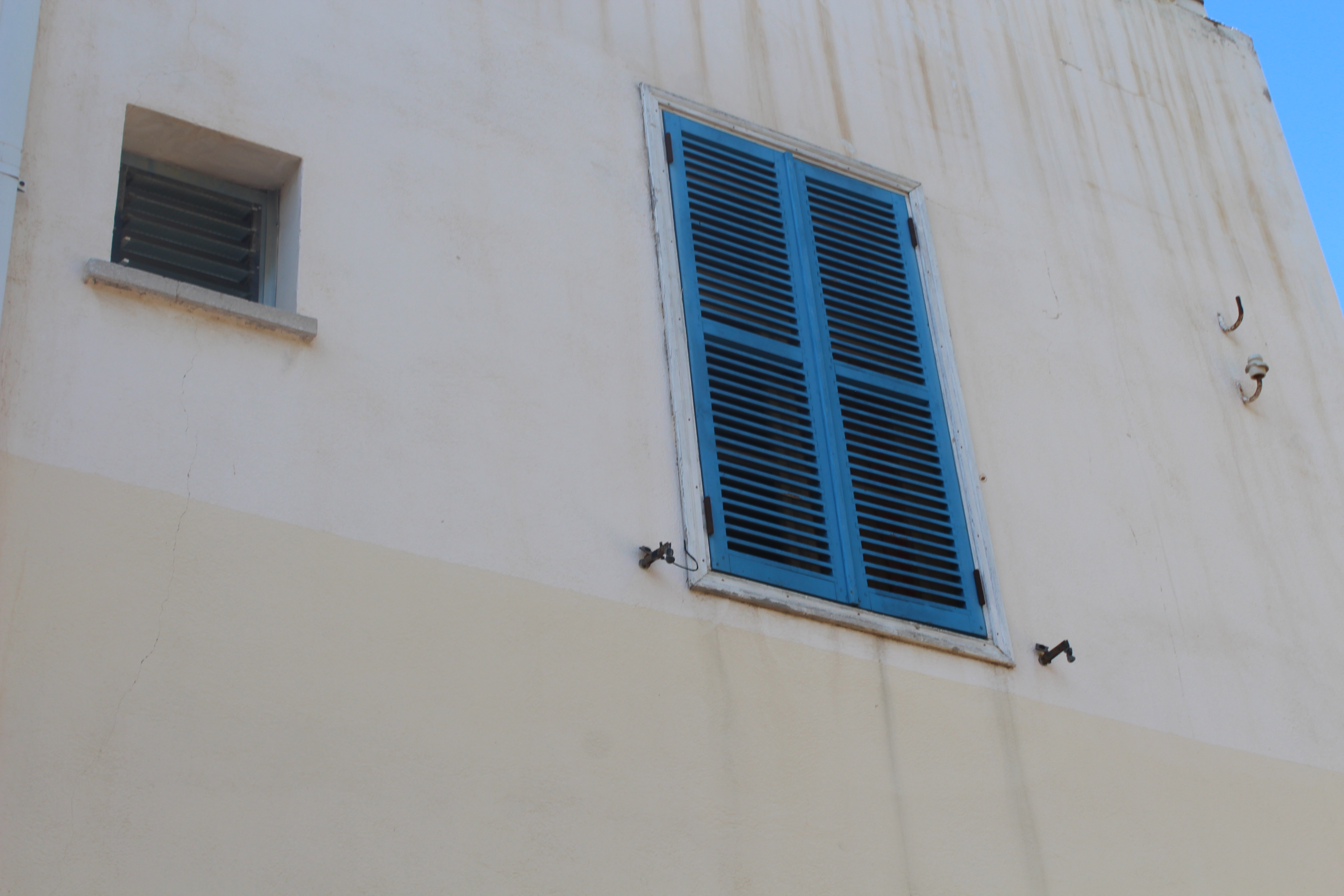 Nitzanim Palace, Israel. The site's ID in Wiki Loves Monuments photographic competition is 8-0351-001